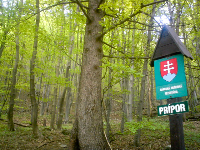 sign of national nature reservation Prípor in Lesser Fatra, Slovakia